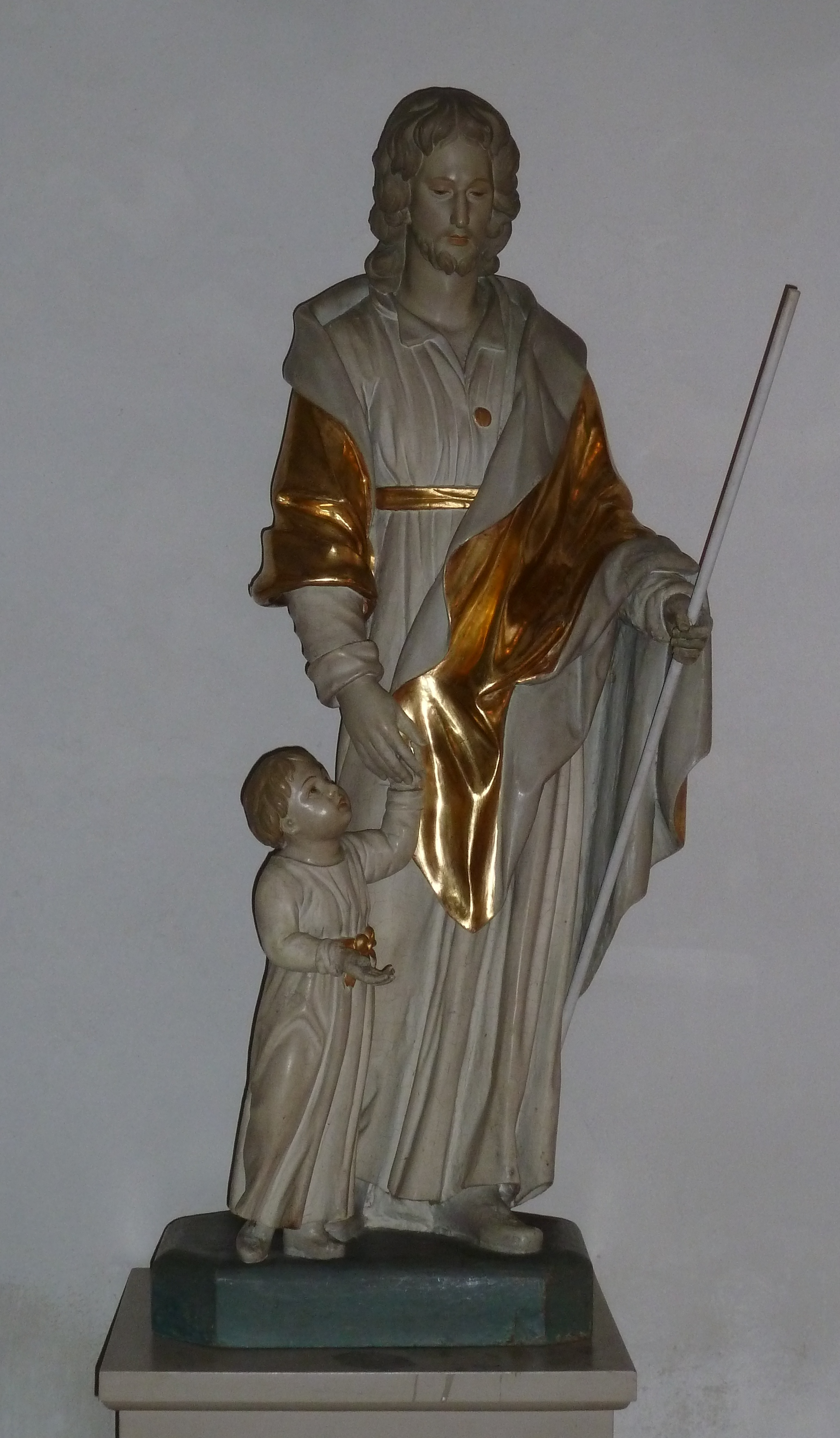 own file